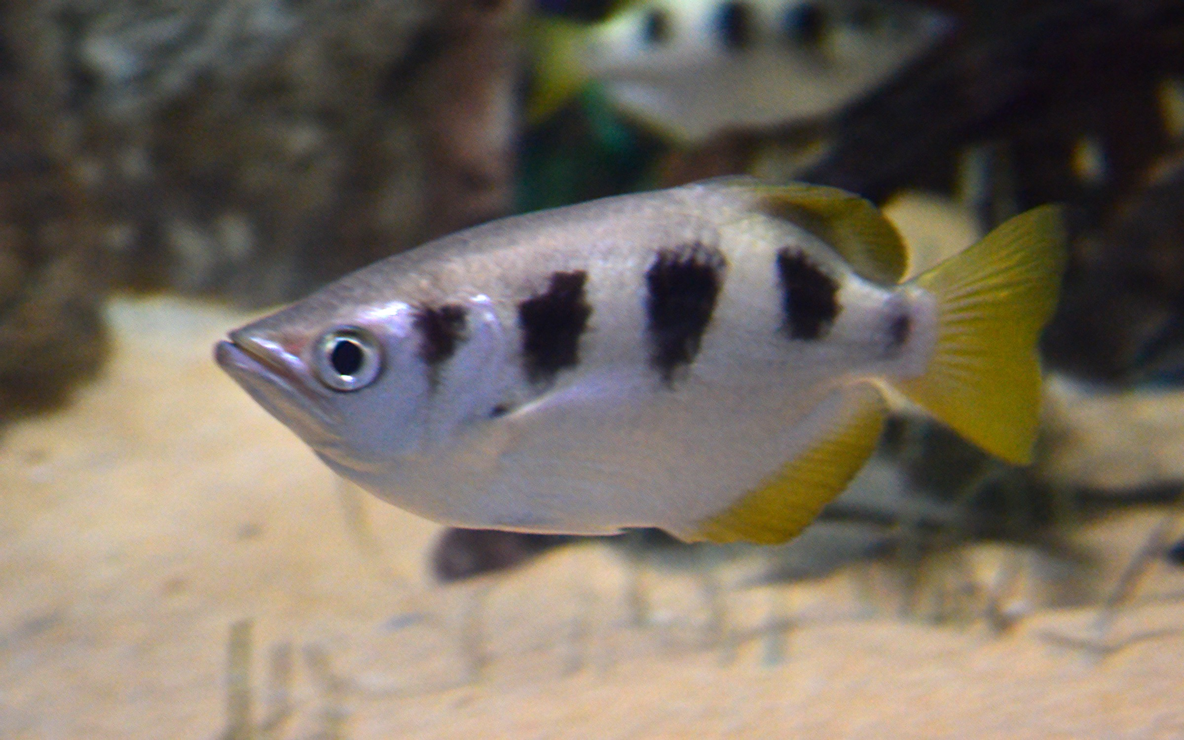 Largescale archerfish